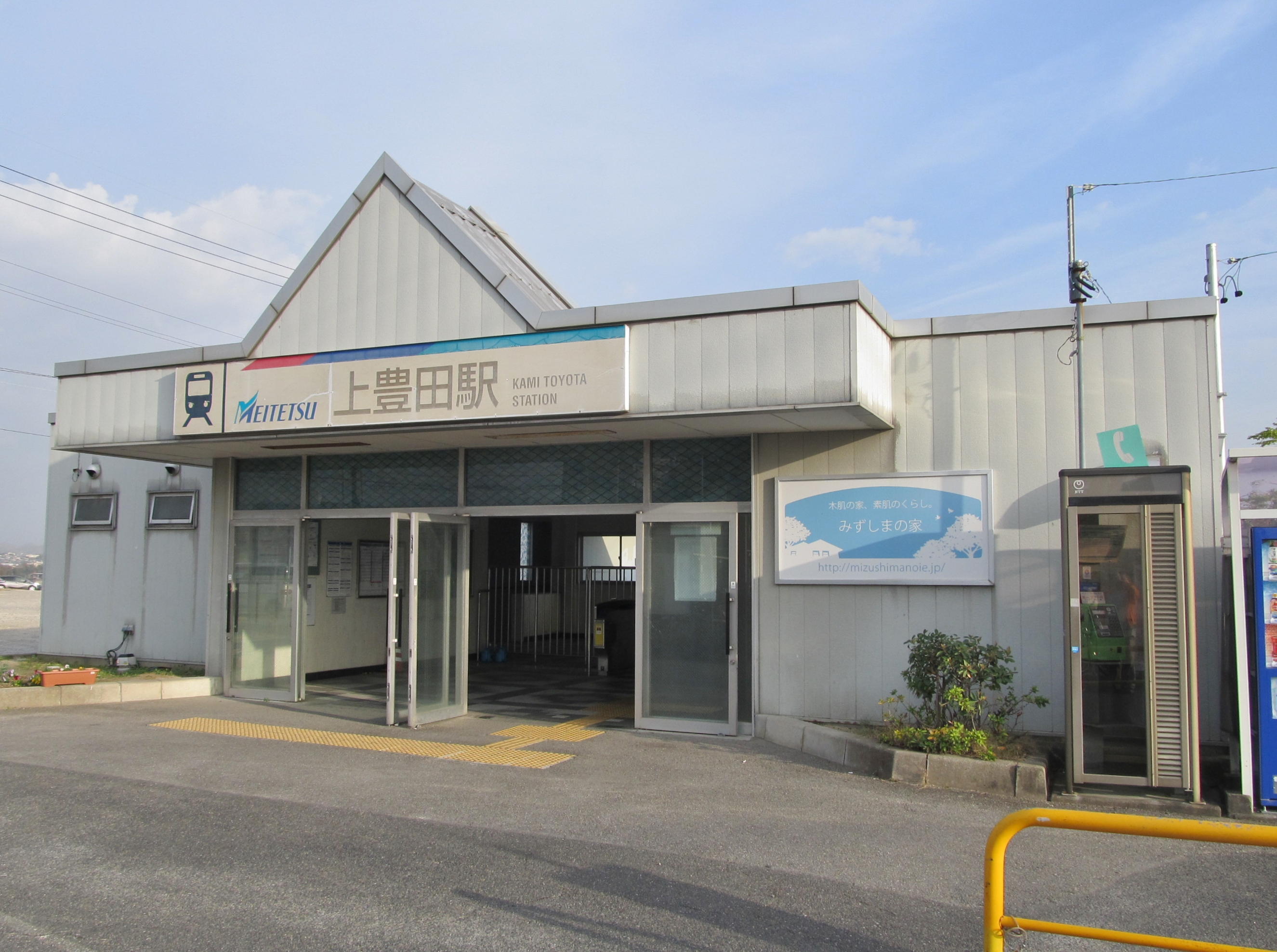 Nagoya Railroad Toyota Line Kami Toyota Station Building.